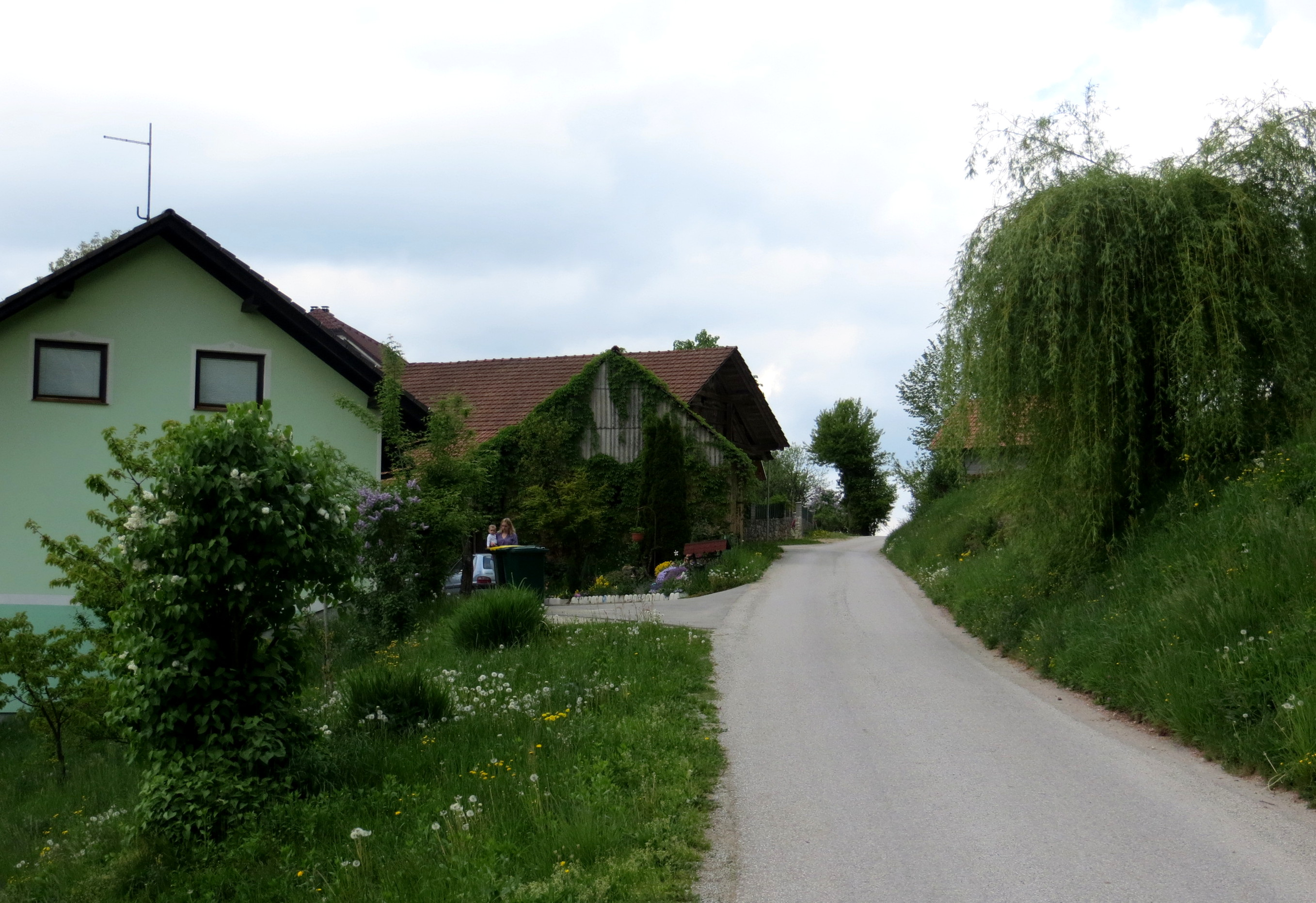 Višnji Grm, Municipality of Šmartno pri Litiji, Slovenia